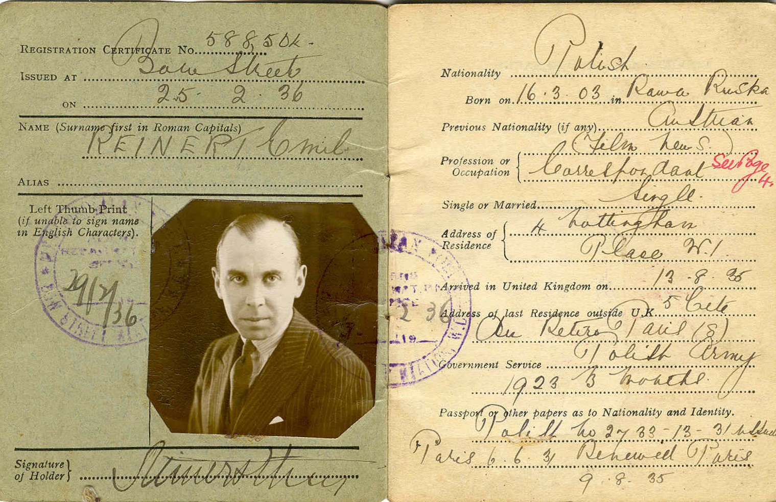 Certificate of Registration of Emil Reinert, issued in London, 25.02.36